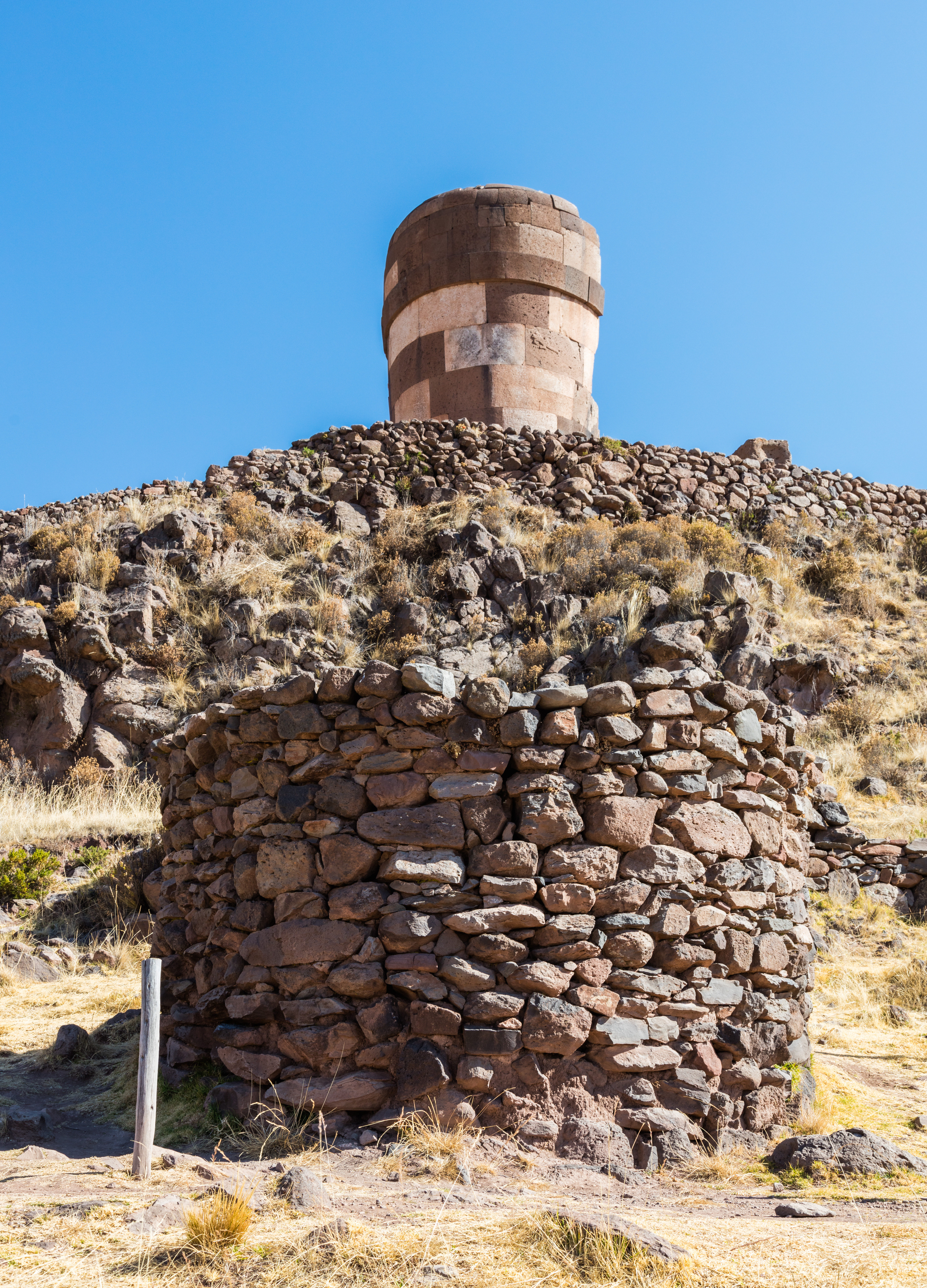 Chullpa funerary towers, Sillustani, Peru